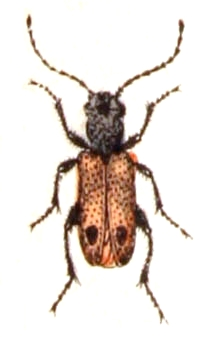 Apalus bimaculatus, from Calwer's Käferbuch, Table 48, Picture 29. Taxonomy was updated to 2008, using mostly the sites Fauna Europaea and BioLib. Please contact Sarefo if the determination is wrong!